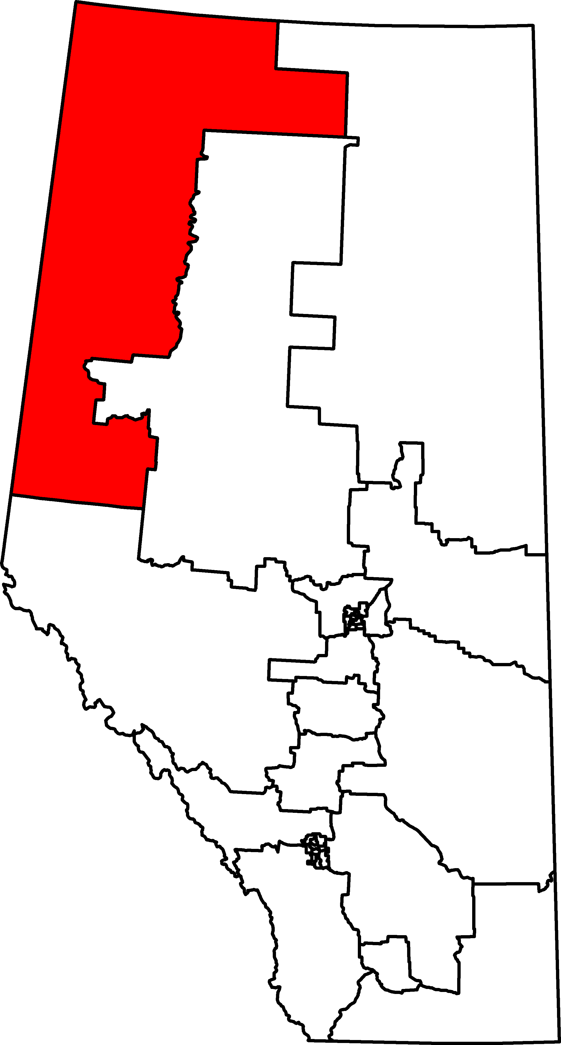 Federal Electoral District in Alberta, Canada as of the 2013 Representation Order.